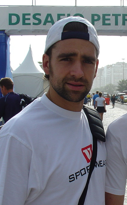 Nicolas Kiefer